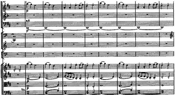 organ point